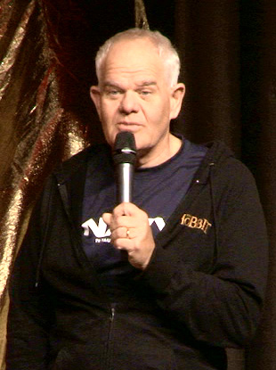 Mark Hadlow on April 4, 2015 at the Hobbitcon III convention in Bonn, Germany